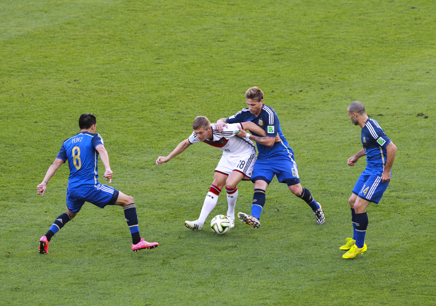 The final match of World Cup 2014 between Germany and Argentina 2014-07-13